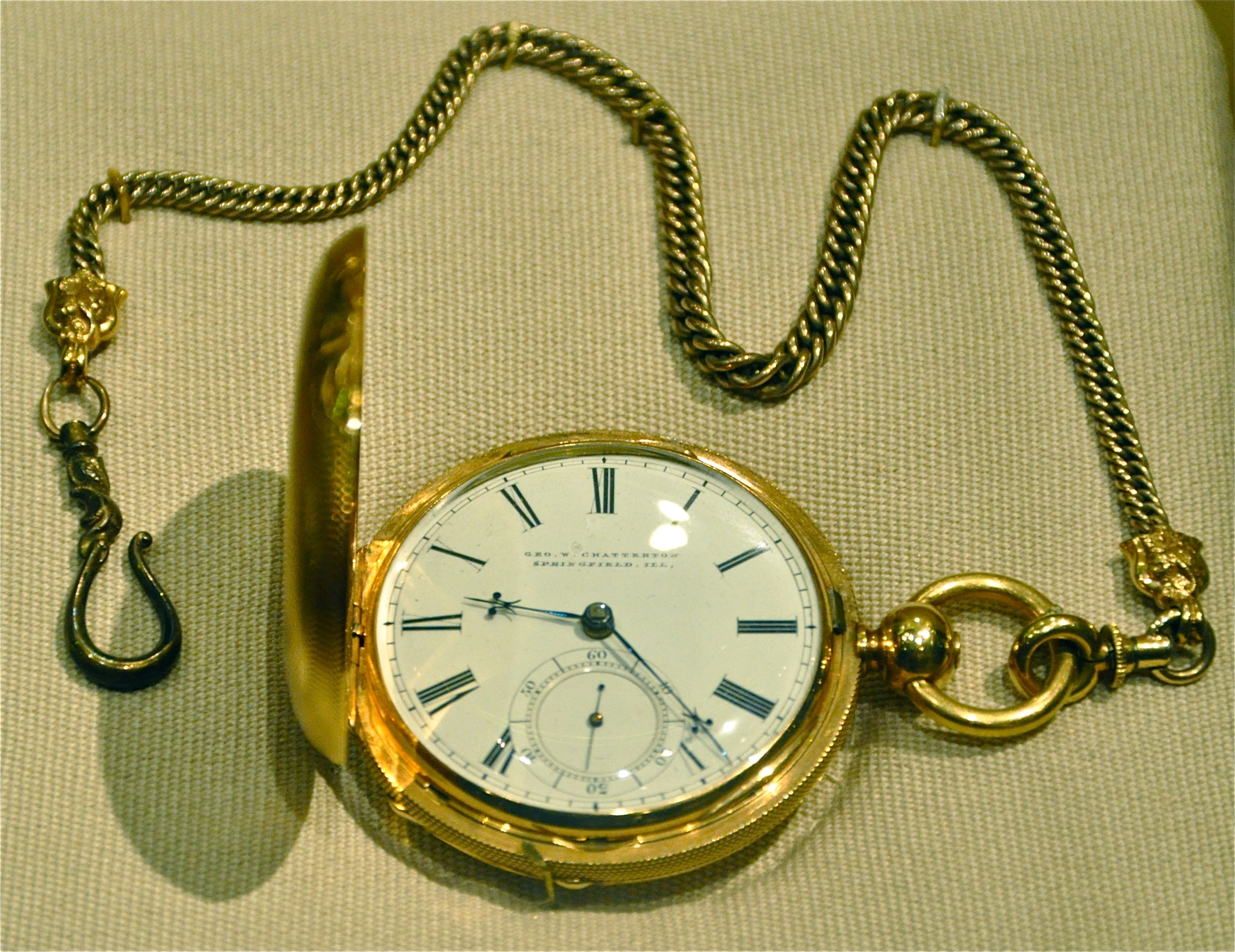 displayed at the National Museum of American History (Smithsonian Institution).